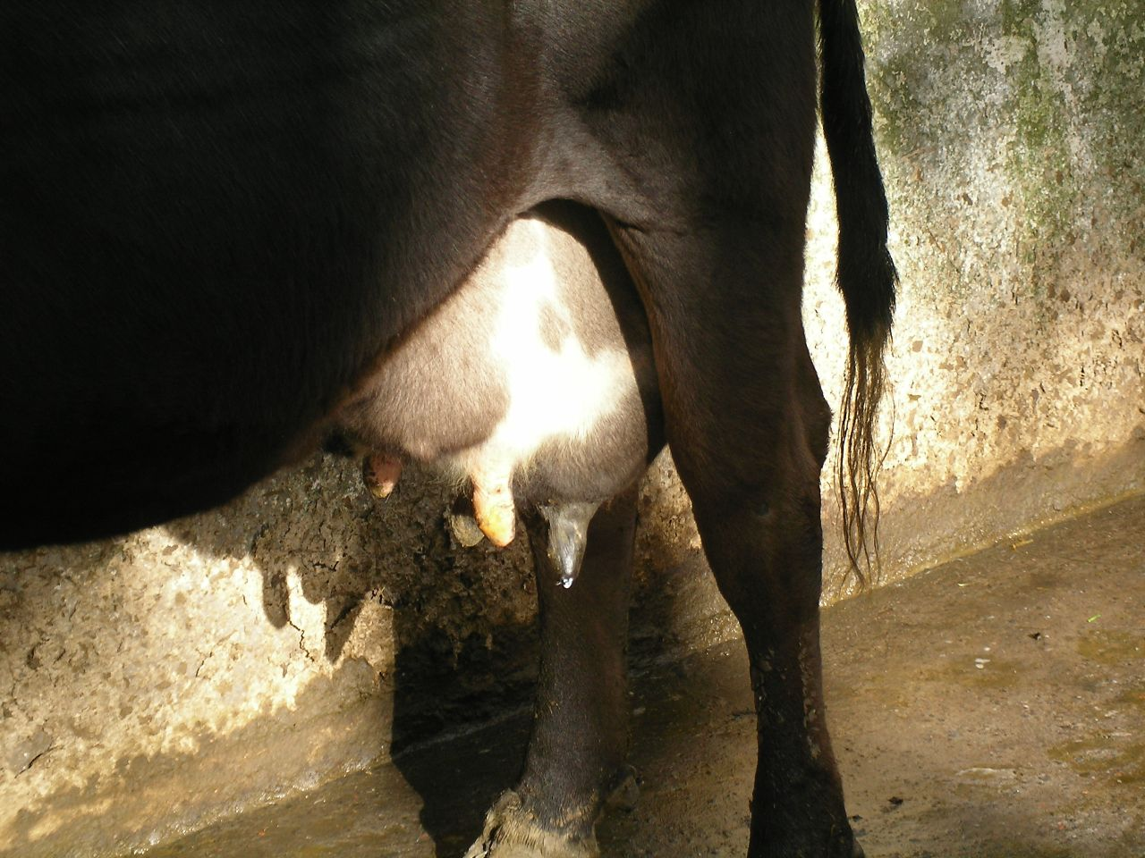 Udder of a dairy cow, ready for milking, El Chaupi organic dairy farm, Ecuador